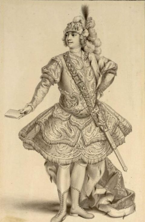 Antigono by Johann Adolph Hasse (staged at Dresden Court Theatre 1744) Costume designs by Francesco Ponte (b. 1725) - Demetrio (sung by Domenico Annibali) fig. 3 of 9 (+title page)